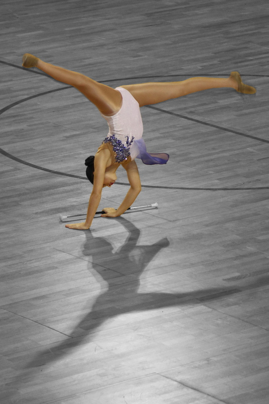 Girl practrice twirling baton